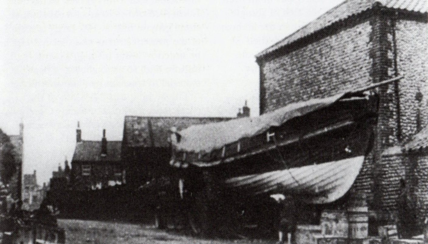 Post card image of the Sheringham RNLB William Bennett. Image created before 1904